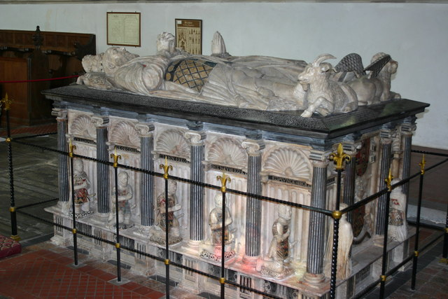 Monument of George Brooke, 9th Baron Cobham (c.1497-1558), of Cobham Hall and Cooling Castle, both in Kent. St Mary Magdalene's Church, Cobham, Kent. Painted on his robe are the arms of St Amand: Or fretty sable, on a chief of the second three plates